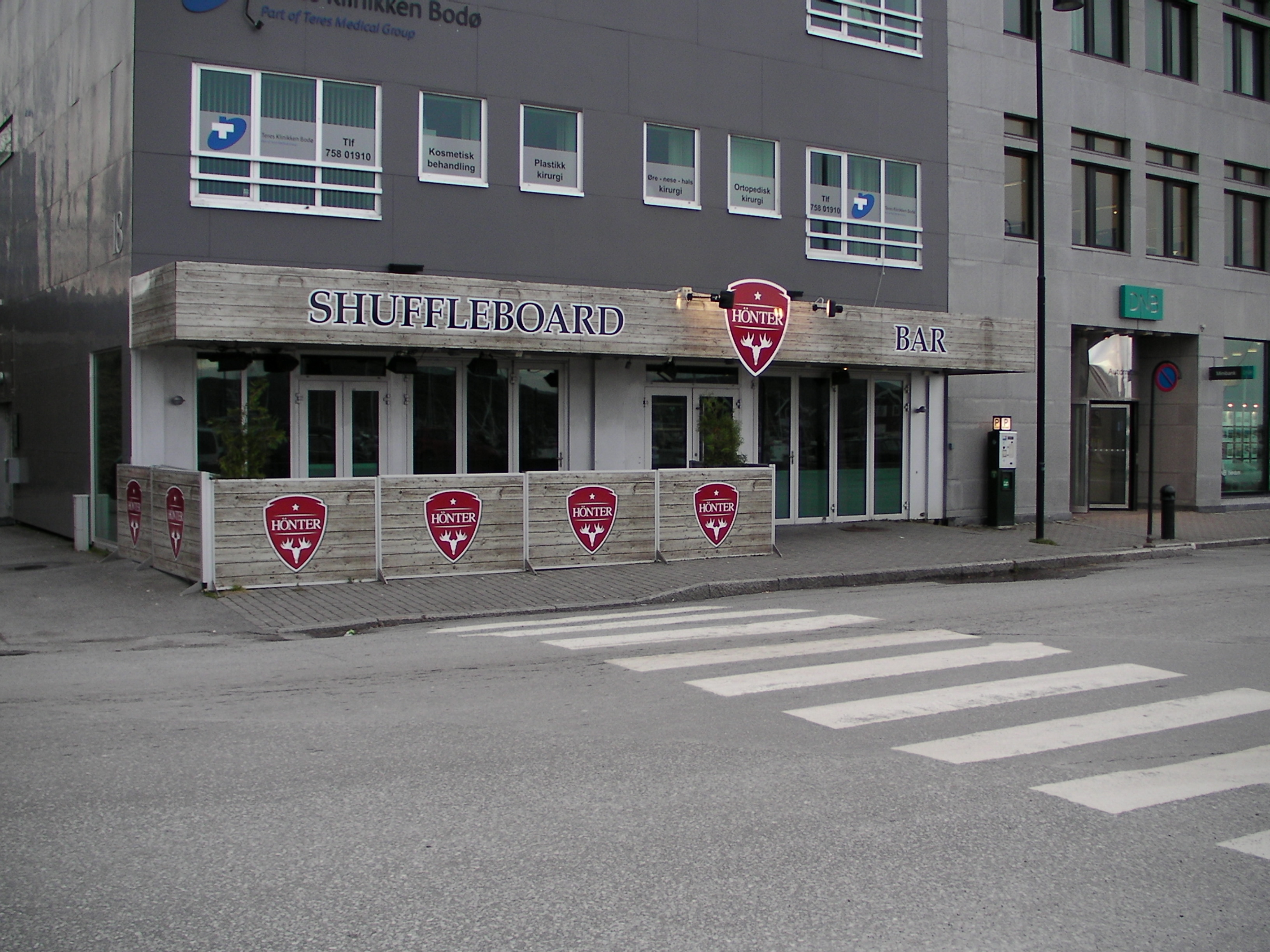 Hönter Bodo